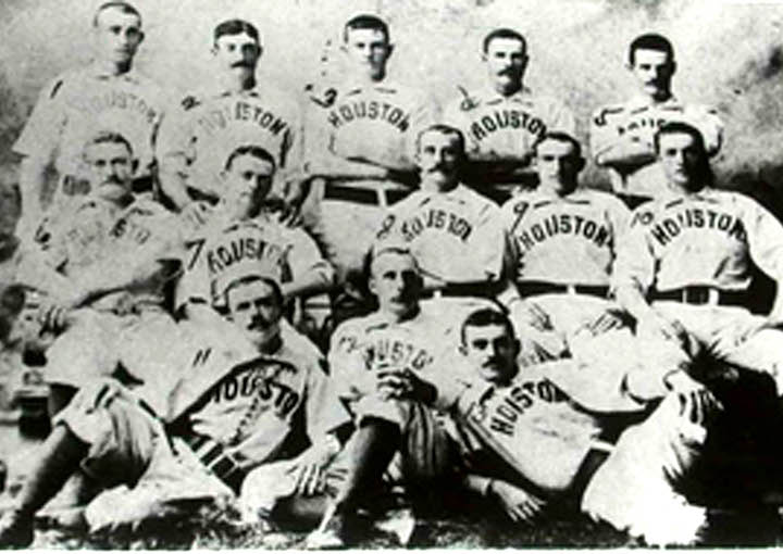 The 1889 Houston Mud Cats (later known as the Houston Buffaloes) The players (from top to bottom, and left to right) are as follows: 1. Gus “Sherry” Sheringhausen, 2. Frank Weikert, 3. Peter McCoy, 4. Charles Isaacson, 5. Emmett Rogers, 6. Art Sunday, 7. John McCloskey, 8. Walter Baldwin, 9. Bill Joyce, 10. Pat Flaherty, 11. Matt Gagen, 12. Pizzaro Douthett, 13. William Peeples